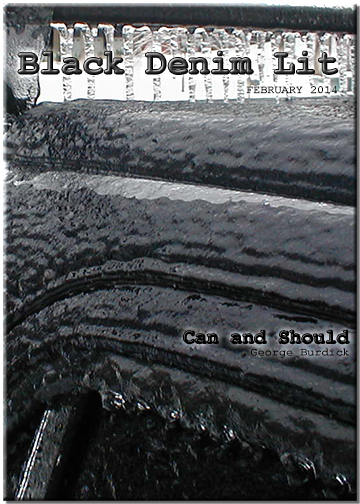 Magazine Cover for Black Denim Lit, February, 2014